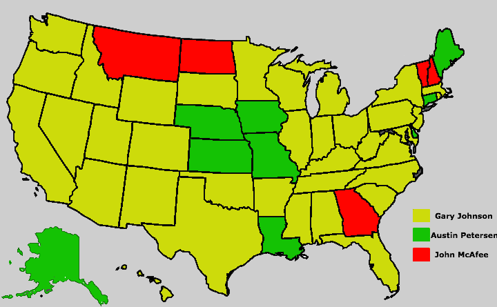 Map depicting which Libertarian Presidential candidate won each state, tie going to the candidates who did relatively better.